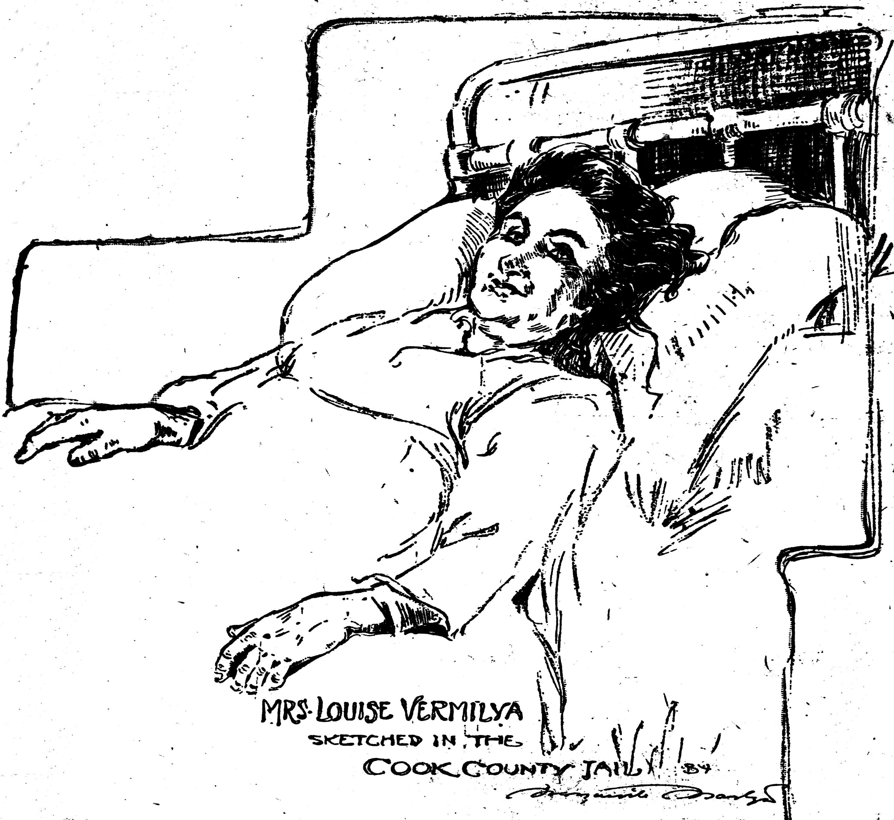 Sketch of accused killer Louise Vermilya